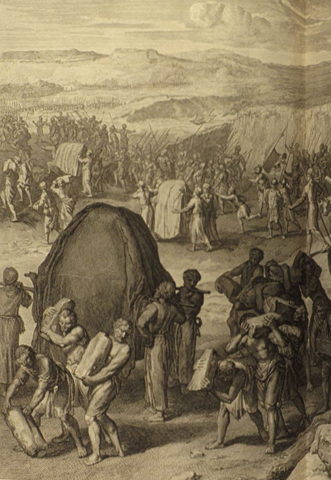 The Israelites Pass the River Jordan, as in Joshua 3:14-17; illustration from the 1728 Figures de la Bible; illustrated by Gerard Hoet (1648-1733) and others, and published by P. de Hondt in The Hague; image courtesy Bizzell Bible Collection, University of Oklahoma Libraries